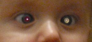 A child with a white eye reflection as a result of retinoblastoma.